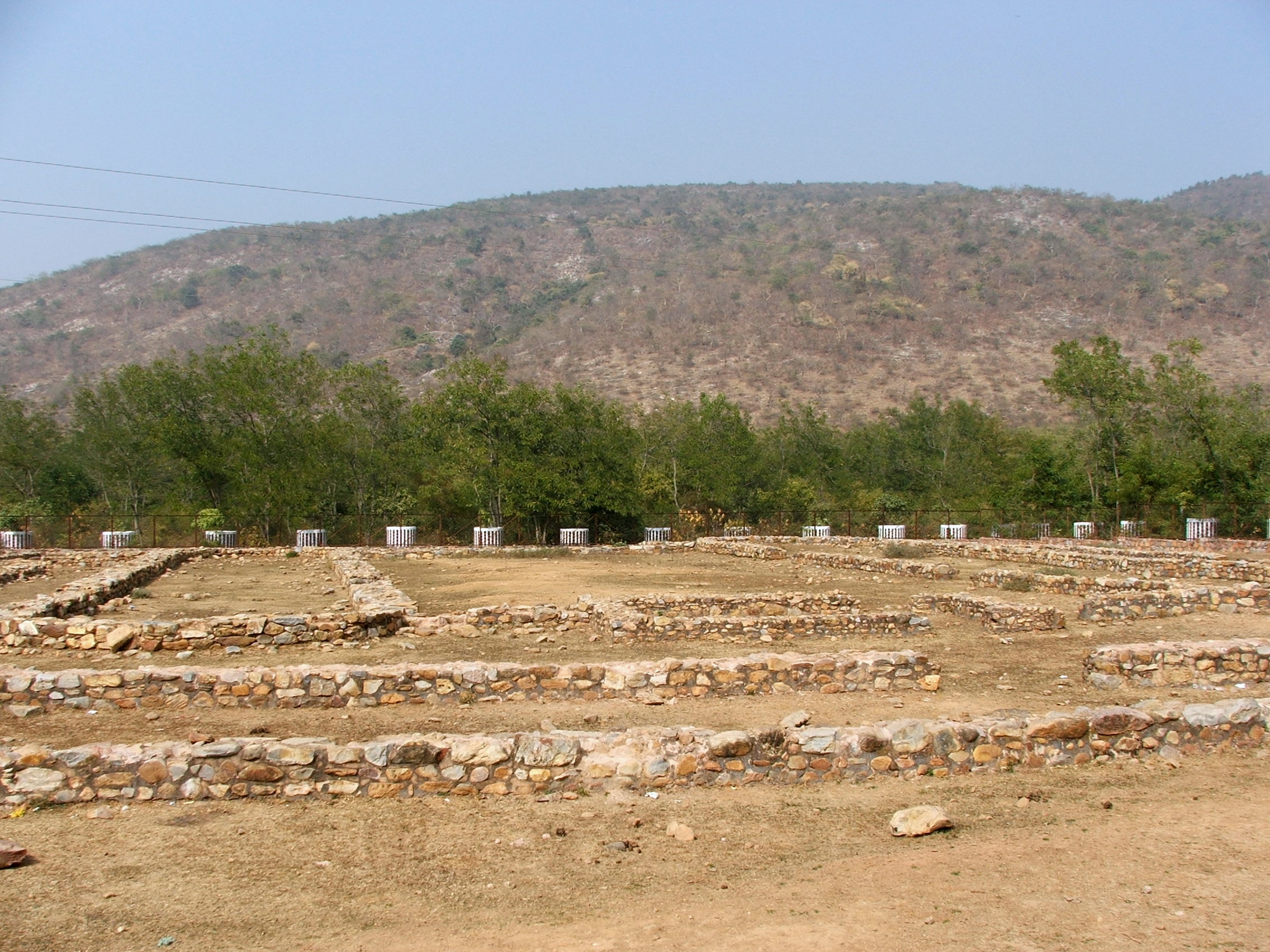 Remains of Jivakambavana, the monastery donated by Doctor Jivaka to the Sangha, so that Buddha and other monks might stay there when they were sick and needed treatment by him. Located at Rajgir, Bihar, India.